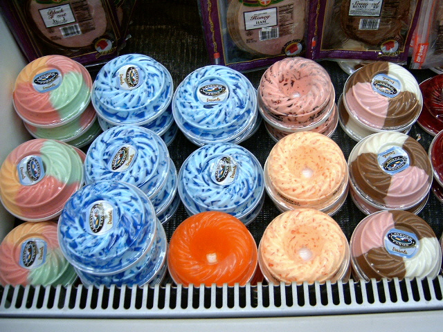 Jell-O desserts